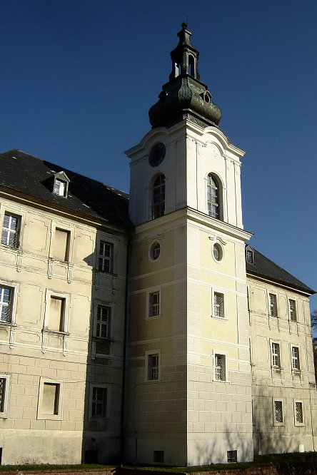 Zabór - the palace tower